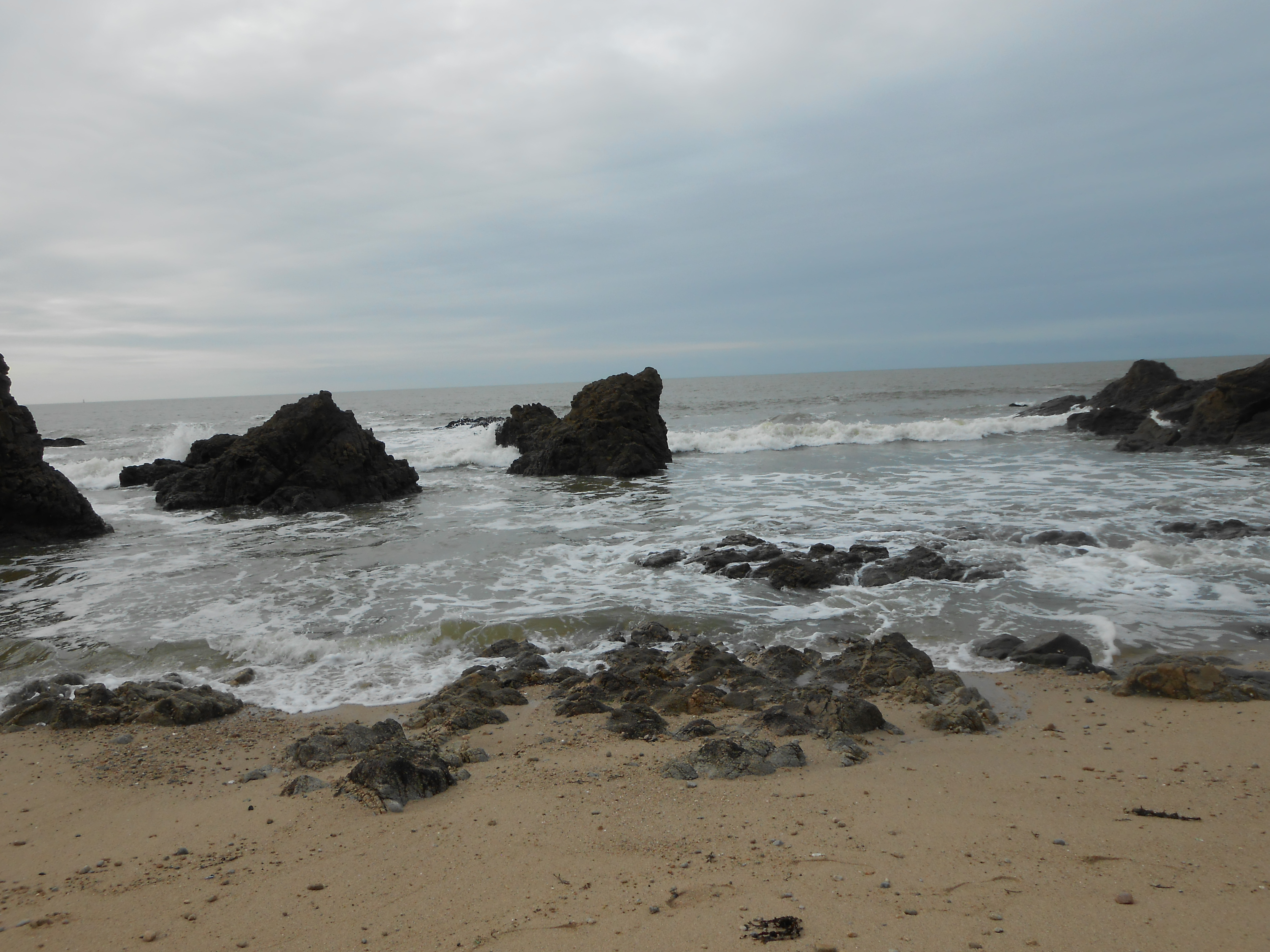 The wild shore next to Le Pouliguen (France)